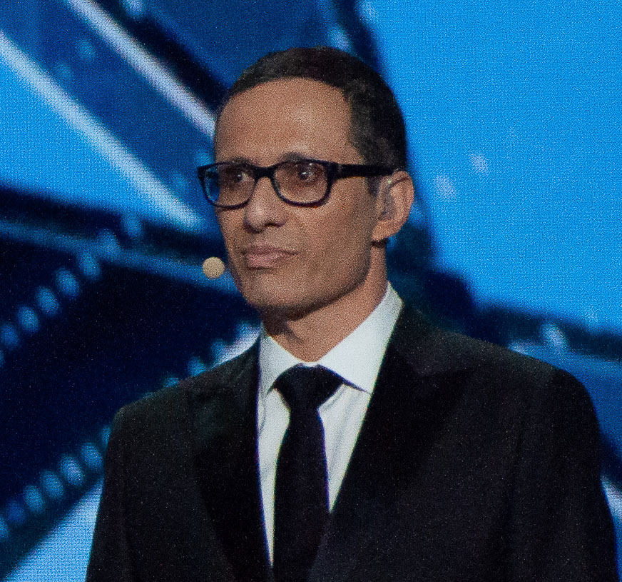 Presenters at the 2019 Eurovision Song Contest Grand Final Dress Rehearsal